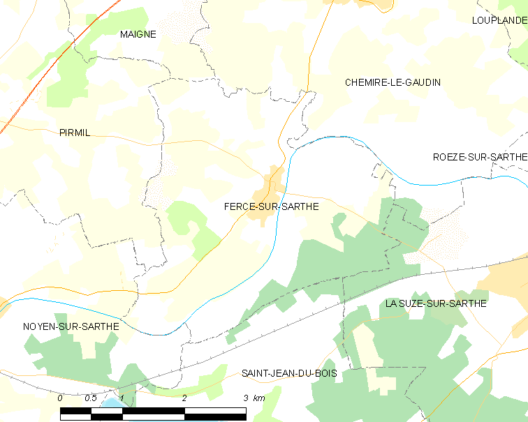 Map of French municipality